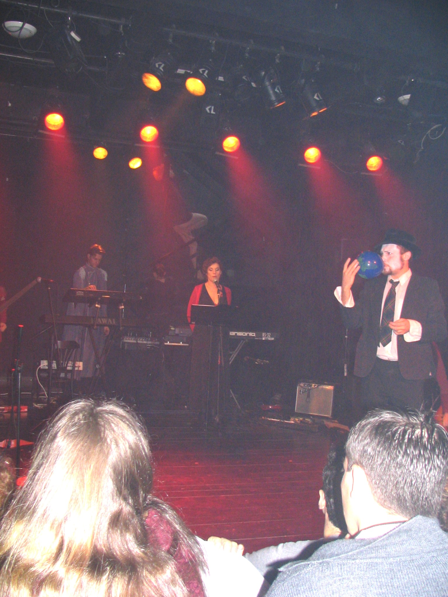 Karen Alkalay-Gut performs at a "Ahvak", "Thin Lips" & "Panic Ensemble" performance at Klipa Theater, Tel-Aviv, Israel. From left to right - Roy Yarkoni, Karen-Alkalay Gut and dancer.